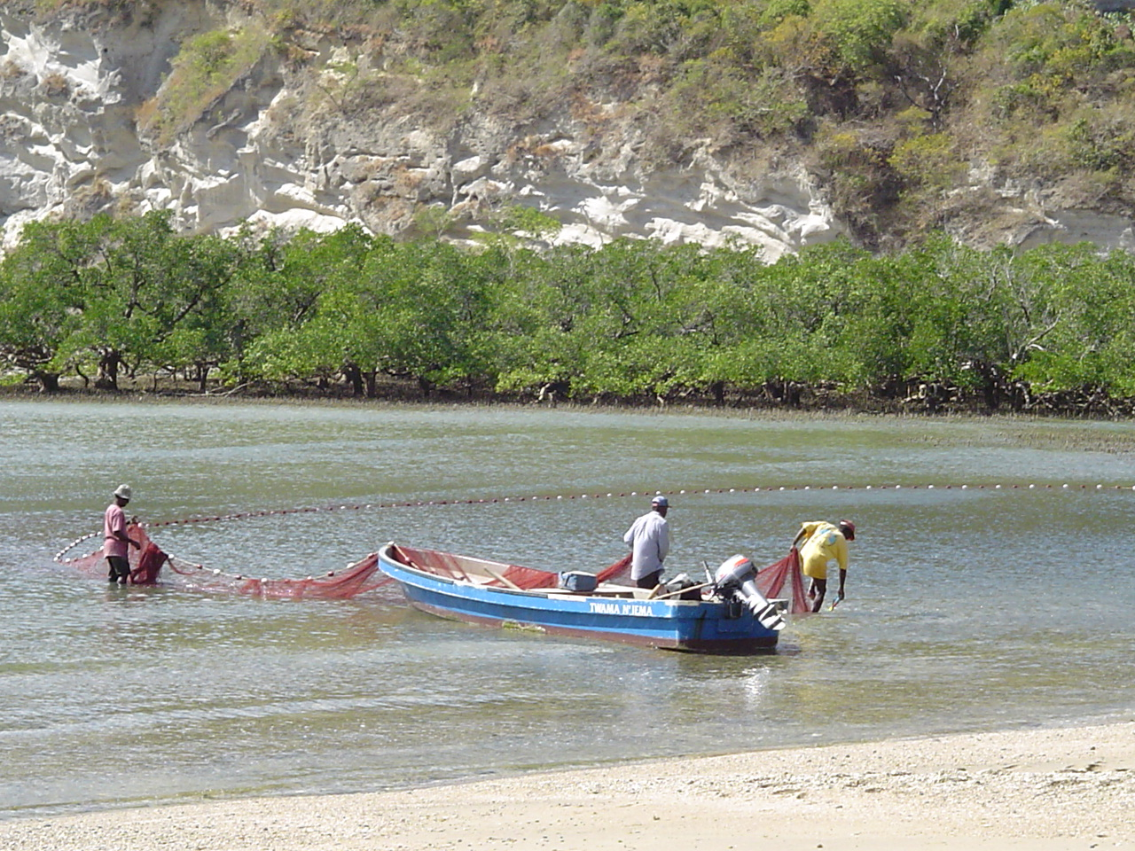 Fishermen at Moya beach (Mayotte)